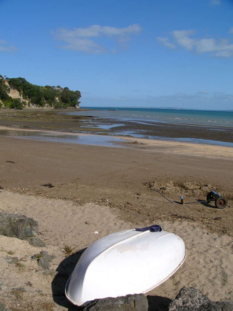 An empty boat on a deserted beach at Big Manly beach on the Whangaparaoa Peninsula, north of Auckland, New Zealand